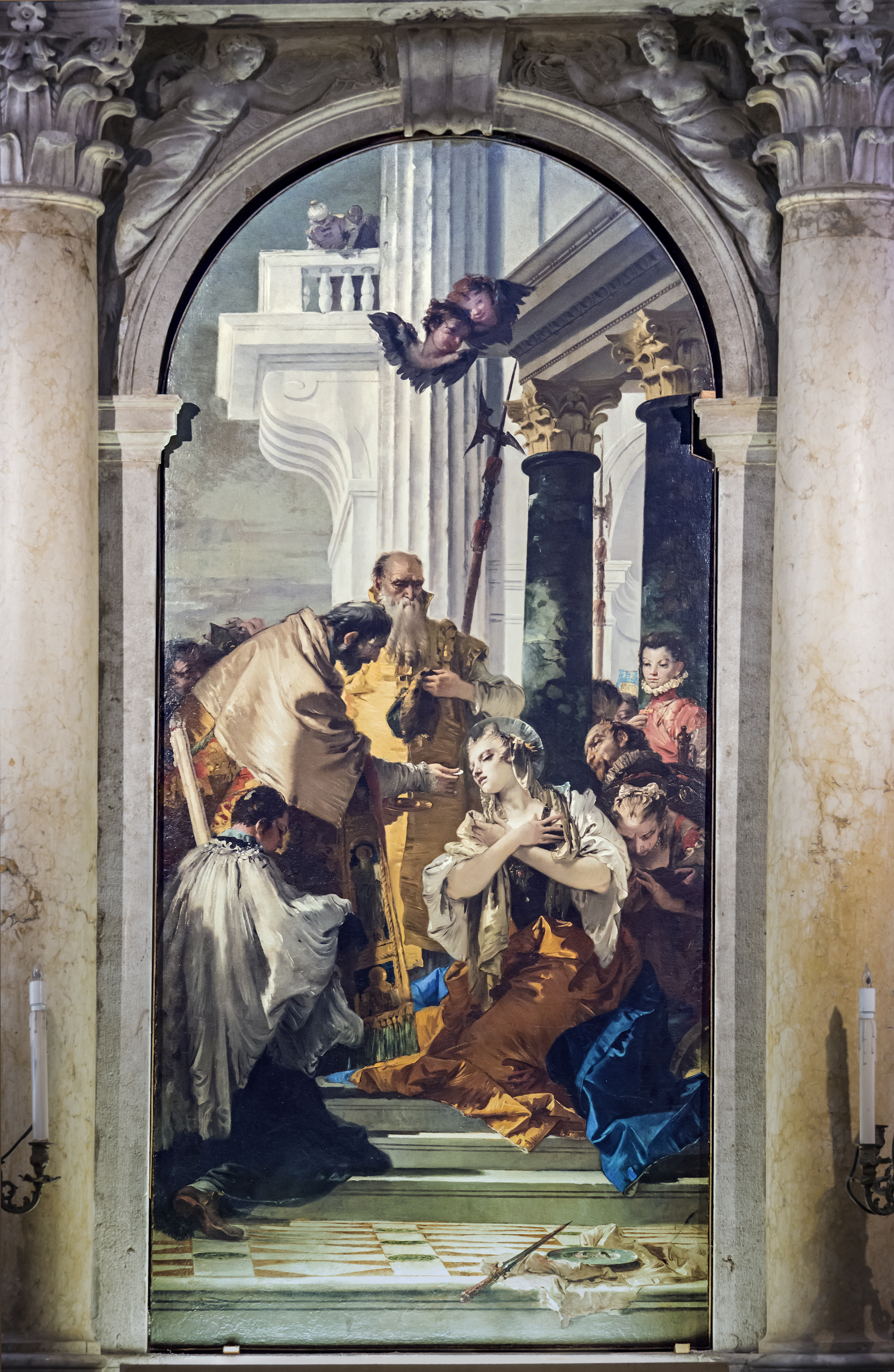 Santi Apostoli, chapel Corner - " The Communion of Saint Lucy " by Giovanni Battista Tiepolo. Oil on canvas 1746 (222 x 101 cm).